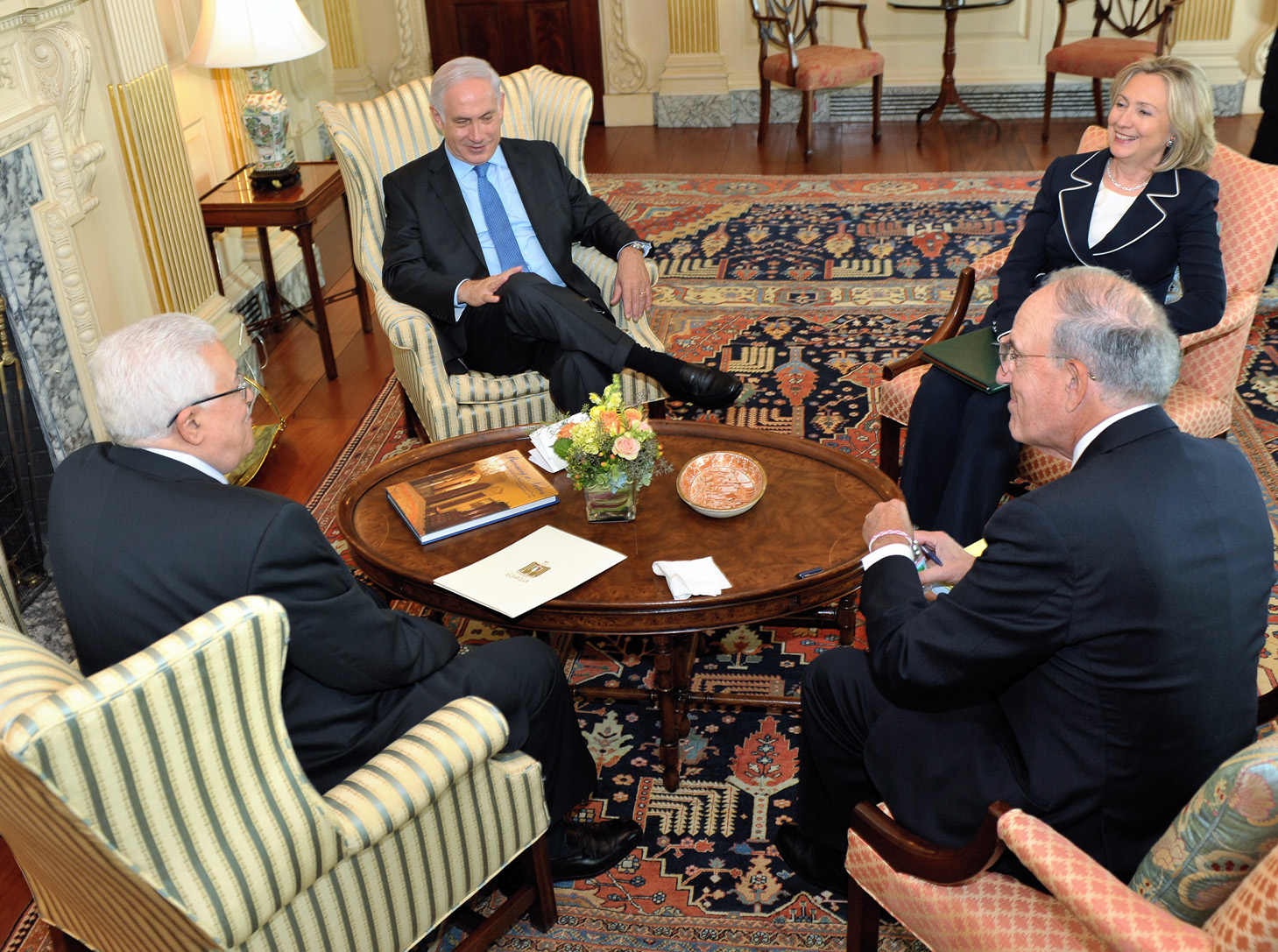 Sept. 2: (l-r backs to camera): President Mahmoud Abbas and Special Envoy for Middle East Peace George Mitchell; (l-r facing camera): Prime Minister Benjamin Netanyahu and Secretary Hillary Clinton as they all share a laugh during their meeting at the State Department.